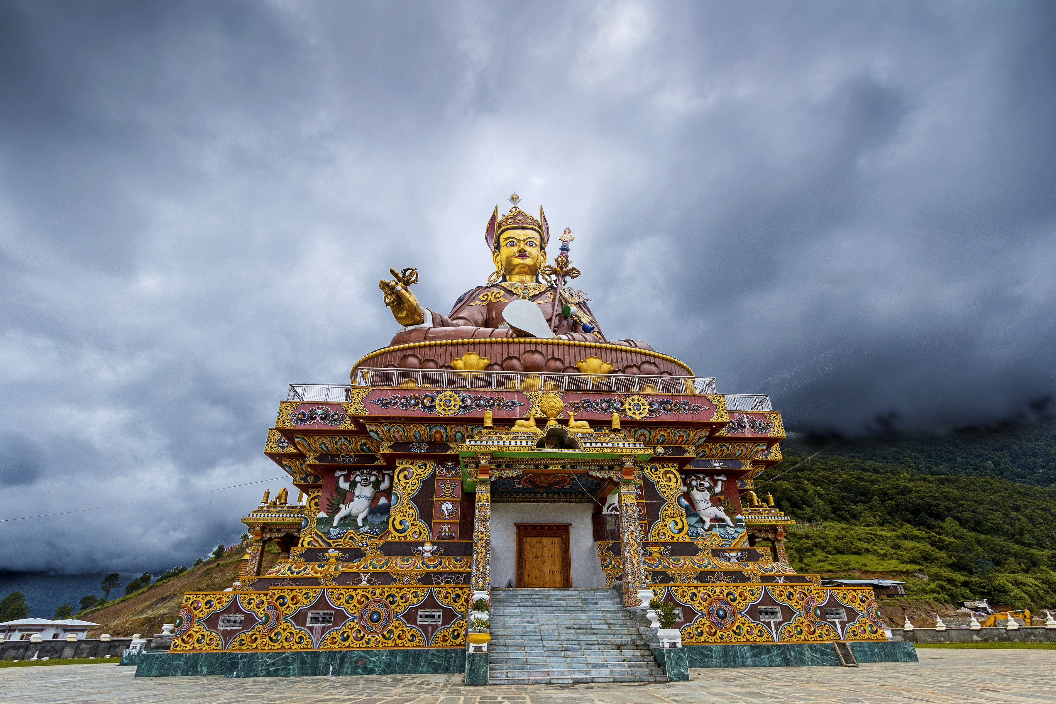 Padmasambhava[note 1] (lit. "Lotus-Born"), also known as Guru Rinpoche, is a literary character of terma,[1] an emanation of Amitābha that is said to appear to tertöns in visionary encounters and a focus of Tibetan Buddhist practice, particulary in the Nyingma school. A statue of Padmasambhava in the form of Guru Nangsi Zilnoen is being built in Takela, Lhuntse in the eastern part of the Kingdom of Bhutan to bring peace and harmony to the world as prophesied by Lord Buddha and the Great Dzogchen masters. The statue will stand 148 feet tall including 30 foot high lion throne and 17 foot high lotus seat.